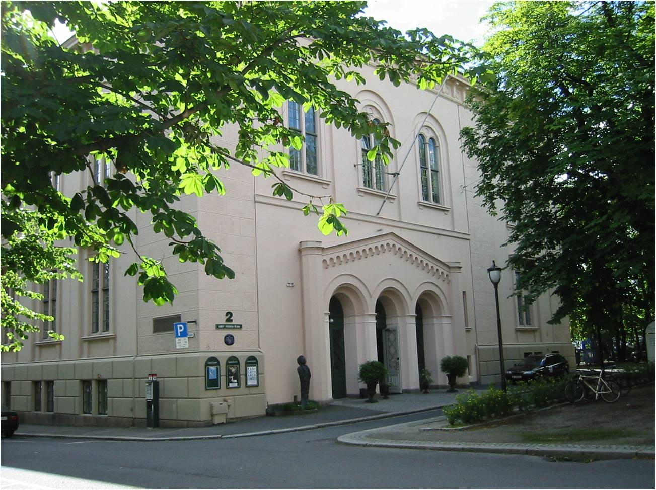 Gamle logen, Oslo front